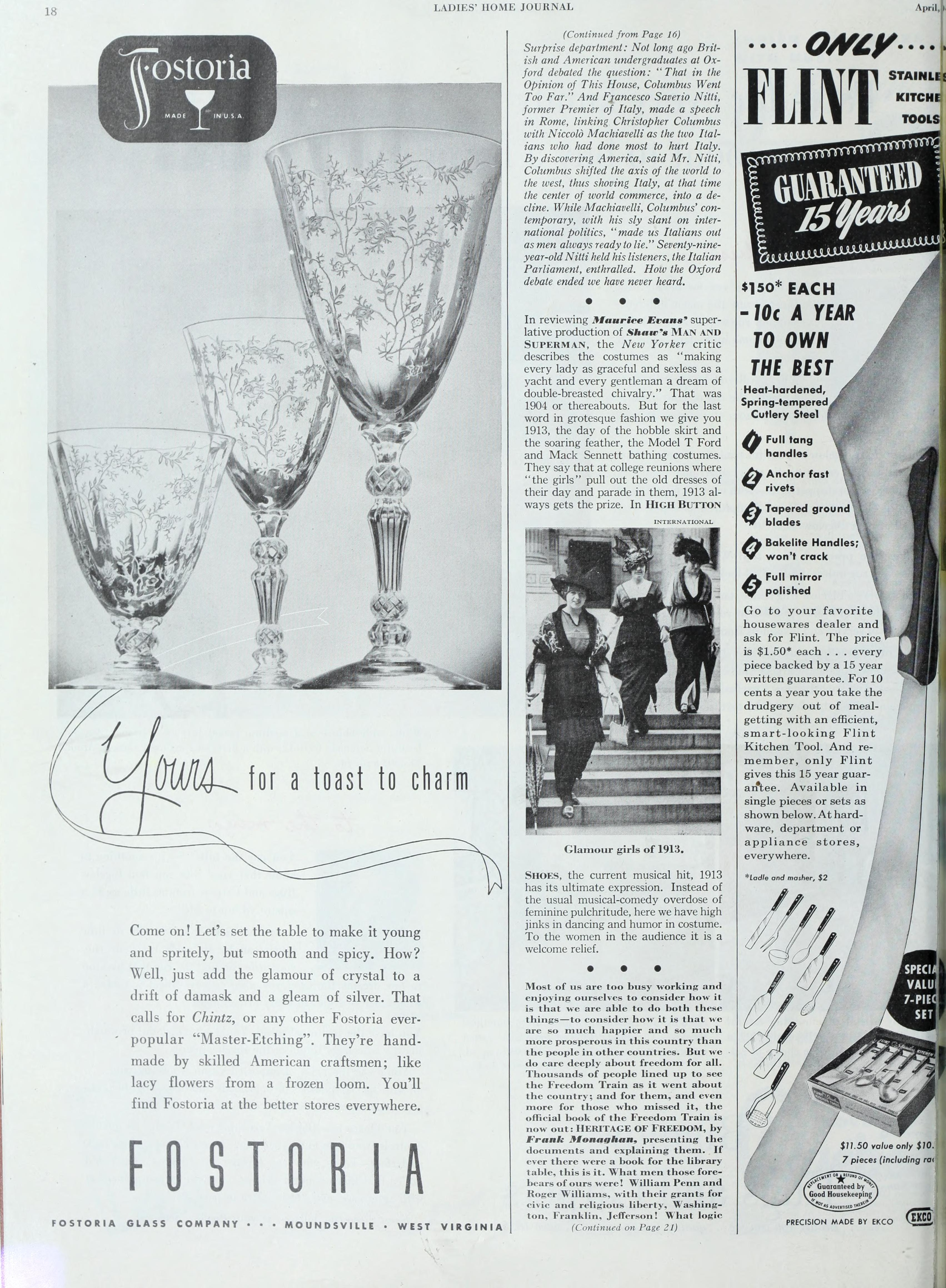 Title: The Ladies' home journal Year: 1889 (1880s) Authors: Wyeth, N. C. (Newell Convers), 1882-1945 Subjects: Women's periodicals Janice Bluestein Longone Culinary Archive Publisher: Philadelphia : (s.n.) Text Appearing Before Image: ' Text Appearing After Image: Come on! Lets set the table to make it youngand spritely, but smooth and spicy. How?Well, just add the glamour of crystal to adrift of damask and a gleam of silver. Thatcalls for Chintz, or any other Fostoria ever-popular Master-Etching. Theyre hand-made by skilled American craftsmen; likelacy flowers from a frozen loom. Youllfind Fostoria at the better stores everywhere. FOSTORIA FOSTORIA GLASS COMPANY MOUNDSVILLE WEST VIRGINIA (Continue/! from Page 16)Surprise department: Not long ago Brit-ish and American undergraduates at Ox-ford debated the question: That in theOpinion of This House, Columbus WentToo Far. And Fjancesco Saverio Nitti,former Premier of Italy, made a speechin Rome, linking Christopher Columbuswith Niccold Machiavelli as the two Ital-ians who had done most to hurl Italy.By discovering America, said Mr. Nitti,Columbus shifted the axis of the ivorld tothe west, thus shoving Italy, at that timethe center of world commerce, into a de-cline. While Machiavelli, Columbus co